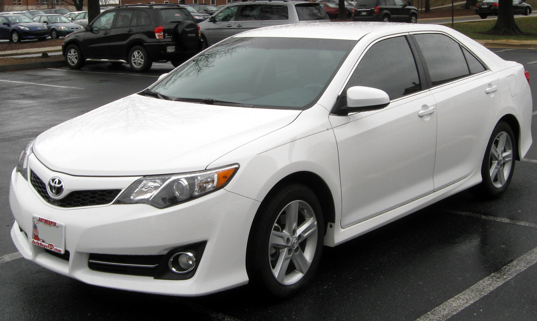 2012 Toyota Camry photographed in College Park, Maryland, USA.